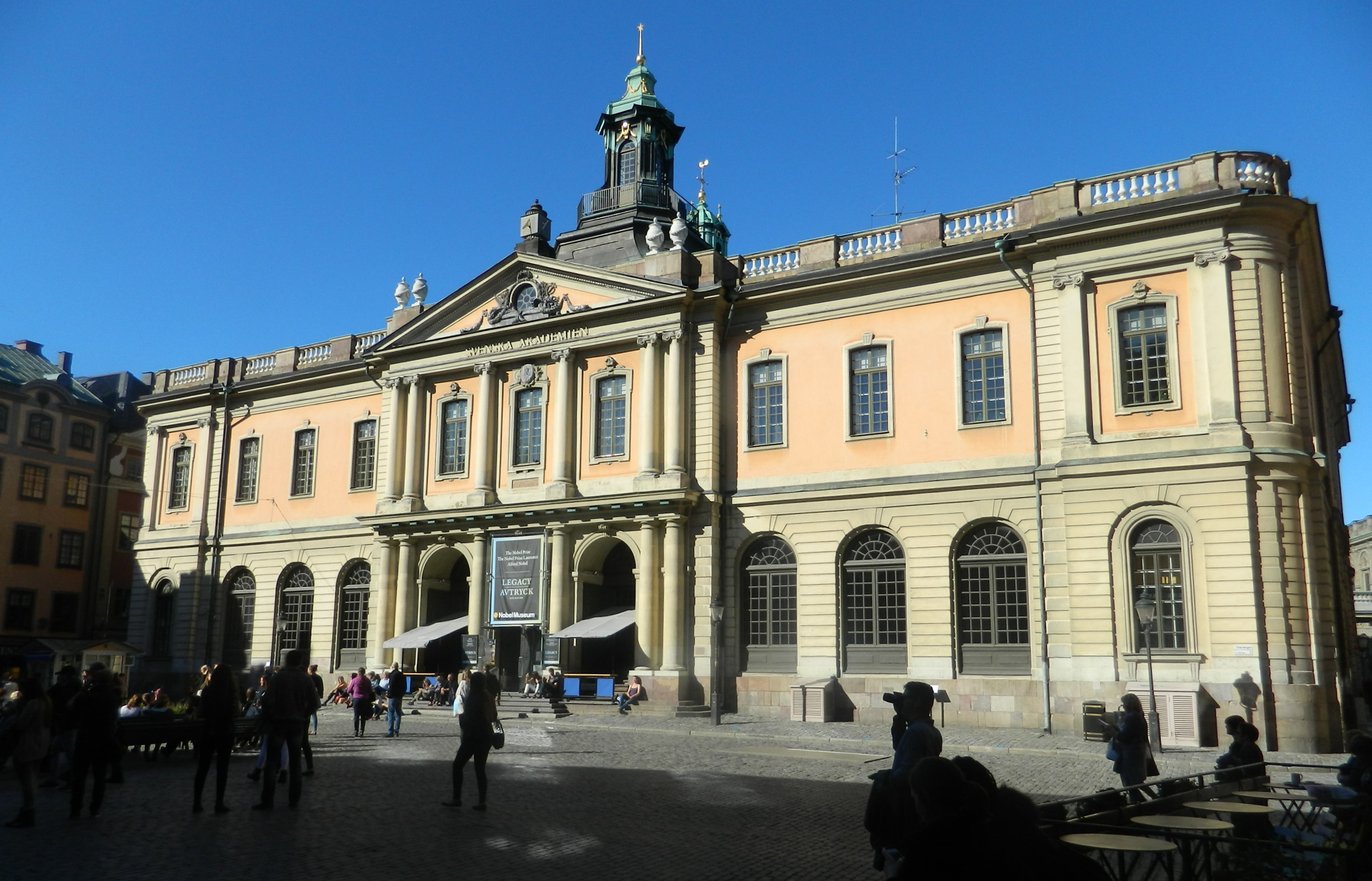 Stockholm Stock Exchange Building old city